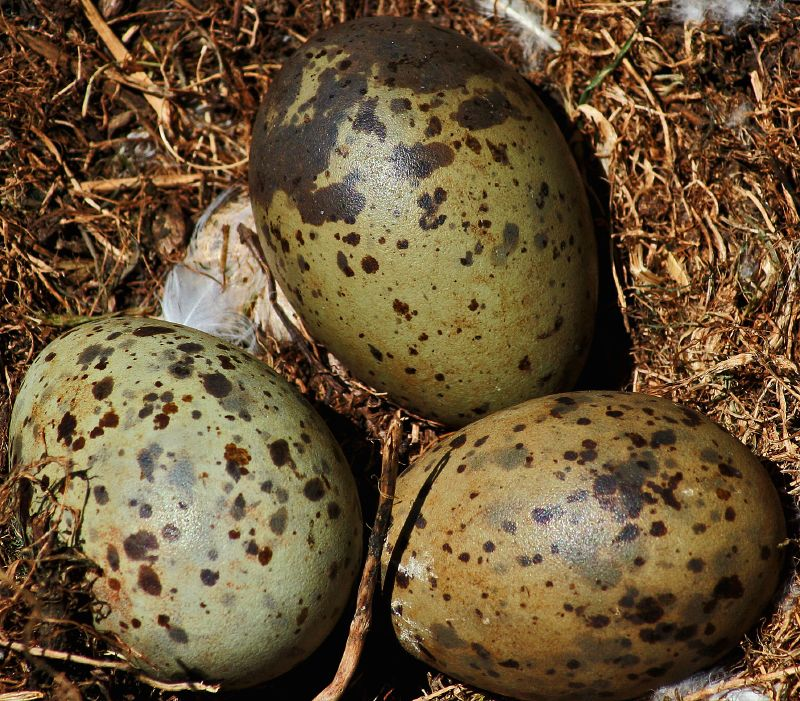 Mind where you step! Steep Holm is alive with gulls. Herrig gulls nest on the cliffs, Lesser black backed gulls nest everywhere else. There are eggs are chicks everywhere, including every footpath on the island. More to follow....